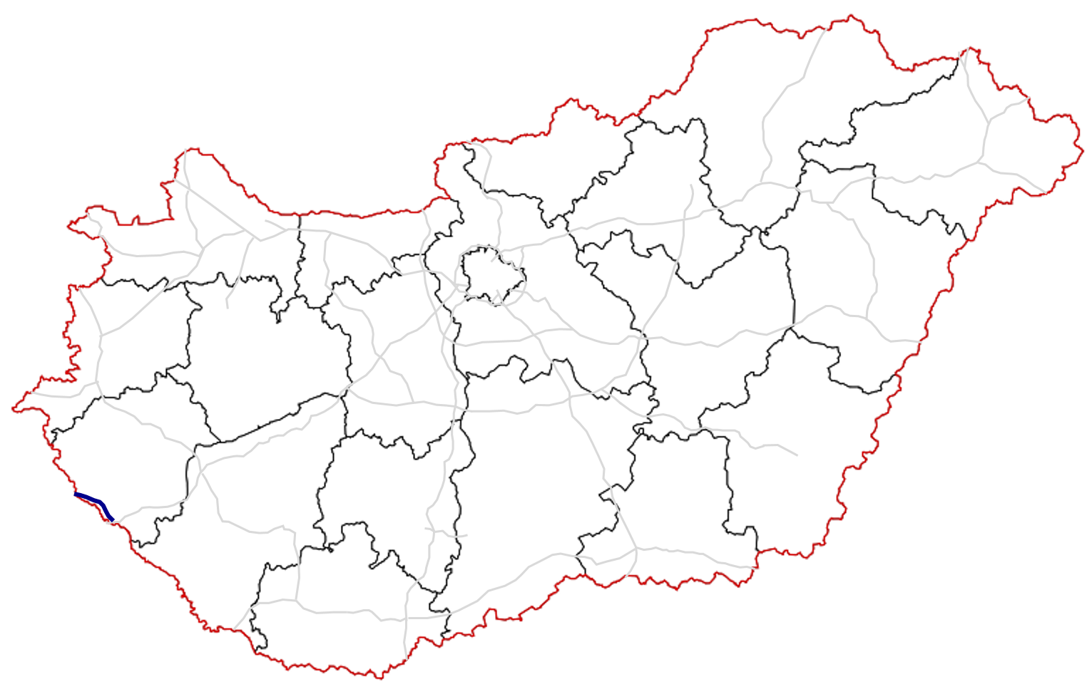 Traject the M70 Motorway, Hungary (Blue: in use, Light blue: under construction, Green: planned)